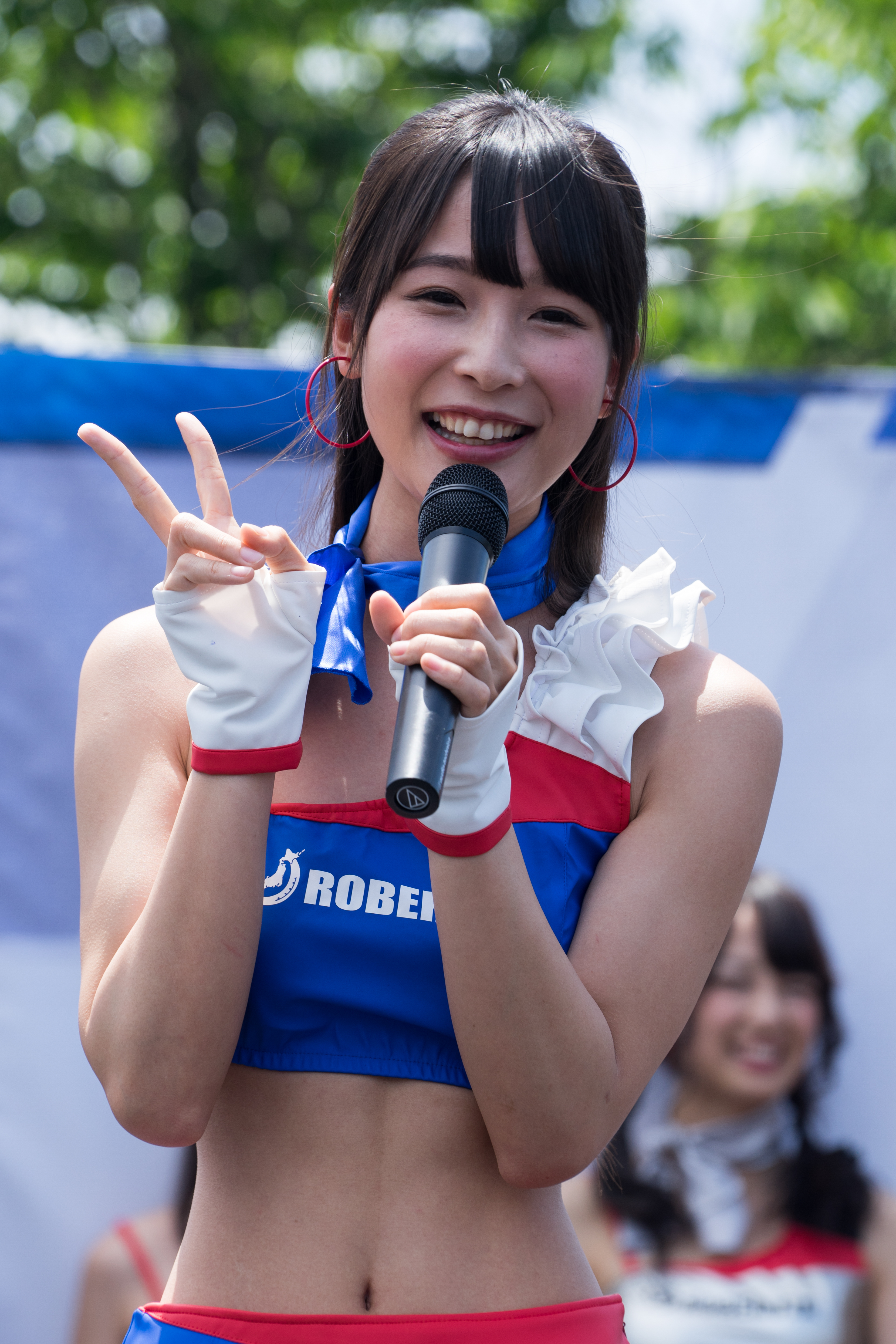 RED BULL AIR RACE CHIBA 2017-238.jpg